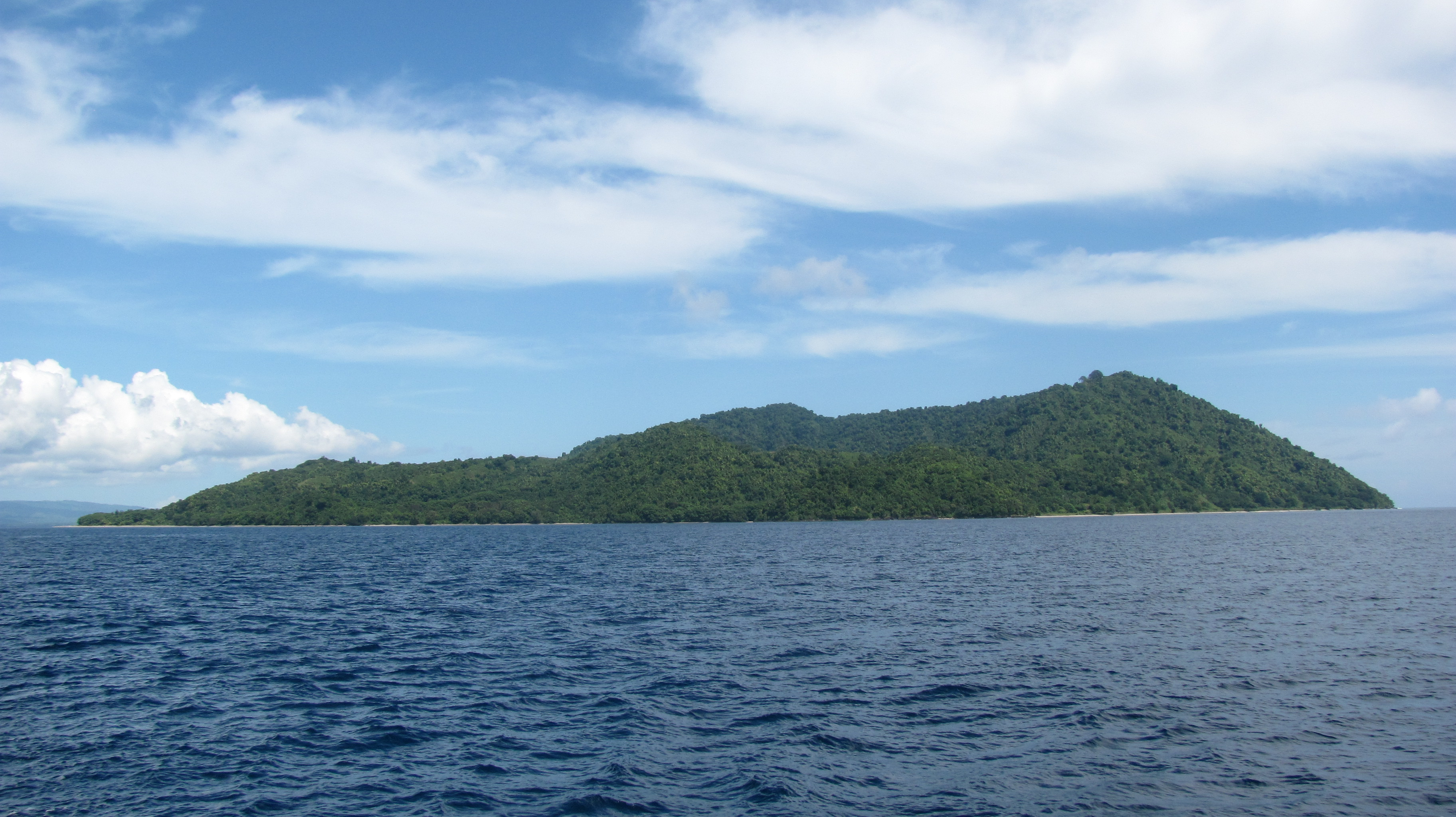 Satonda Island, Indonesia